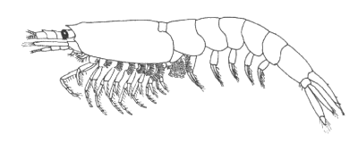 Line drawing of Bentheuphausia amblyops; by Lupo. After Mauchline, J.: Euphausiacea: Adults, Conseil International de l'Exploration de la Mer, 1971; who in turn reproduced the drawing after Sars, G. O.: Bentheuphausia amblyops, in Rep. scient. Results Voyage H.M.S. Challenger 1873-76, 13(3), 1885. (I'm not 100% sure that this tag is actually correct. Anybody knows what the common practice for such scientific drawings "after XYZ" is? After all, one usually tries to reproduce it as faithfully as possible... Lupo 10:32, 17 Jun 2005 (UTC)) \